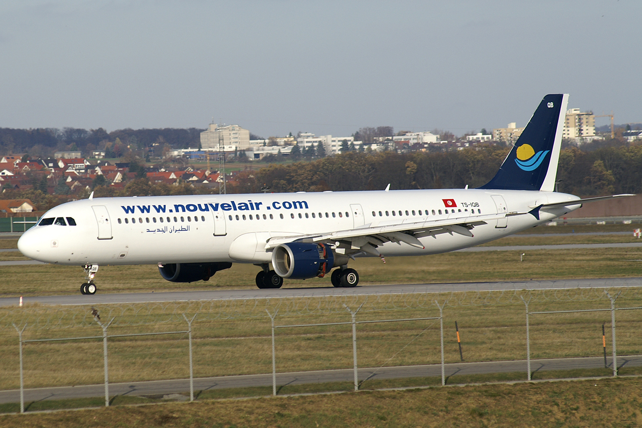 Nouvelair Airbus A321-200 TS-IQB at Stuttgart Airport